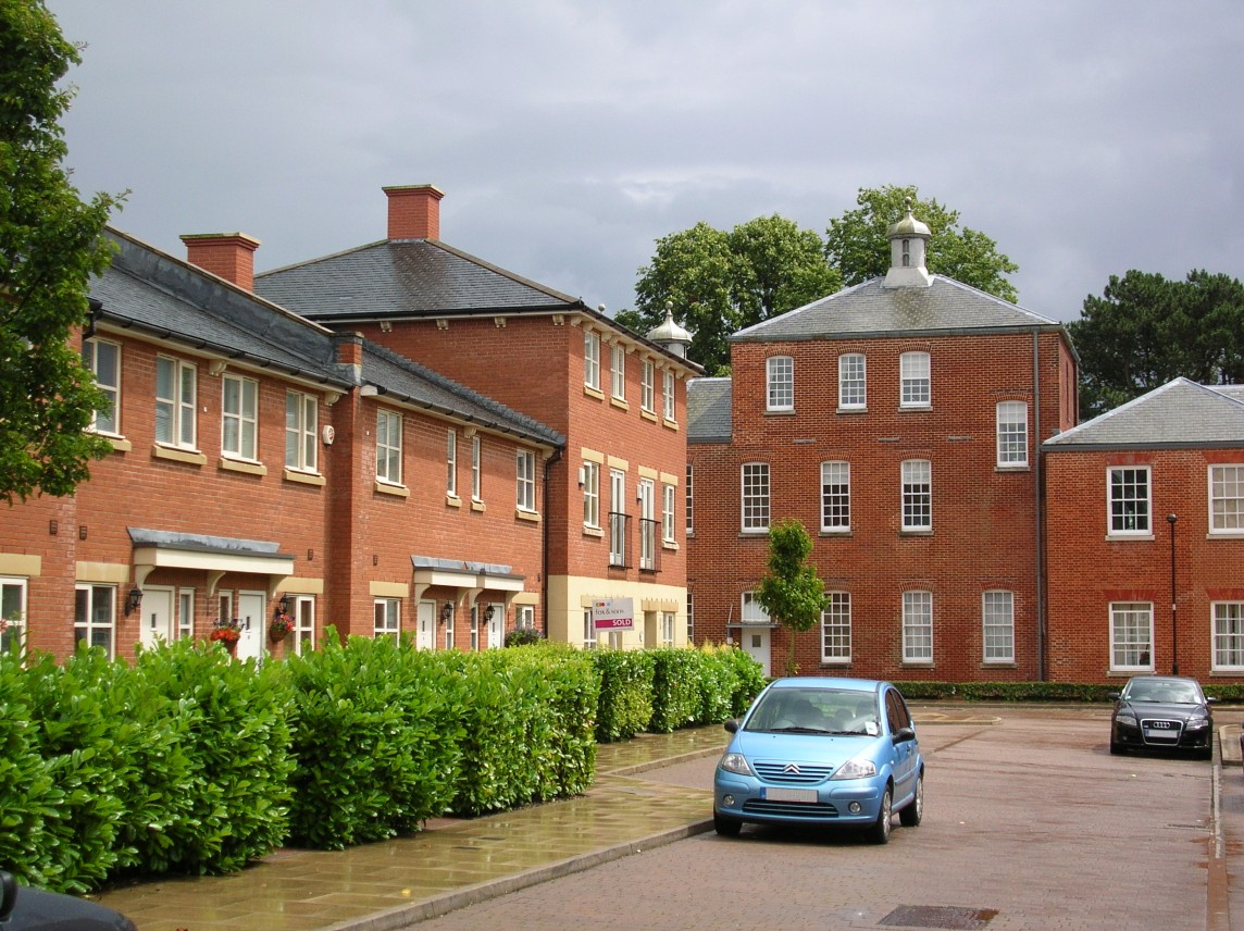 Housing in Knowle Village, Hampshire, UK, on the site of the former Hampshire County Lunatic Asylum. The new housing to the left of the picture very closely matching the redeveloped hospital buildings evident on the right of the picture. Taken 4th July 2007.